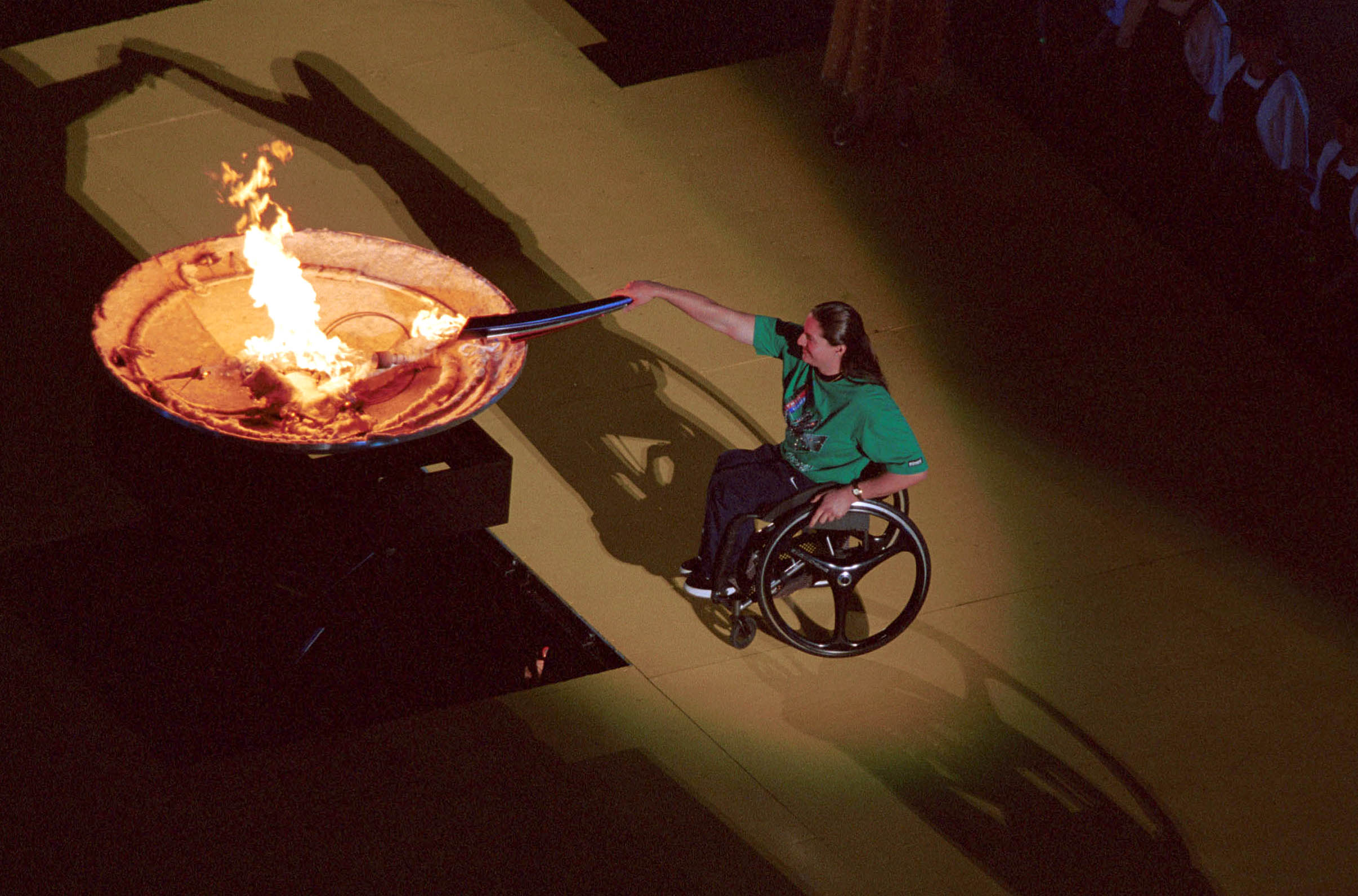 Australian athletics competitor Louise Sauvage lights the cauldron with the Paralympic Flame at the finish of the torch relay, 2000 Sydney Paralympic Games Opening Ceremony